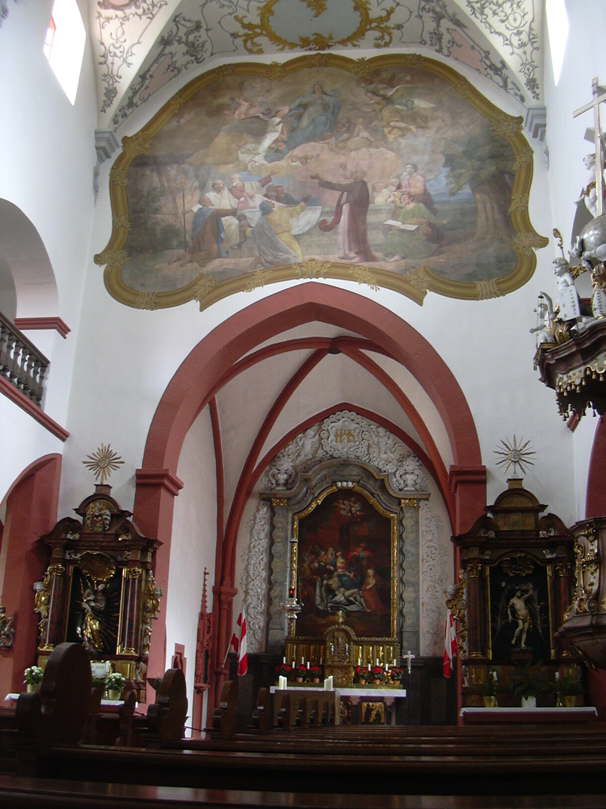 Church St. Peter + Paul, nave and choir, Großostheim, Bavaria/Germany